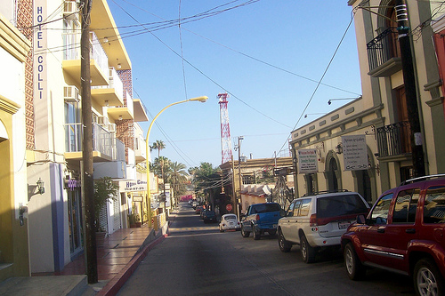 How do you know you're being ripped off by a shop keeper? You just are, accept it. If you're Canadian you're too polite to say anything, and if you're American, you're smugly self-satisfied that you can afford it, anyway.